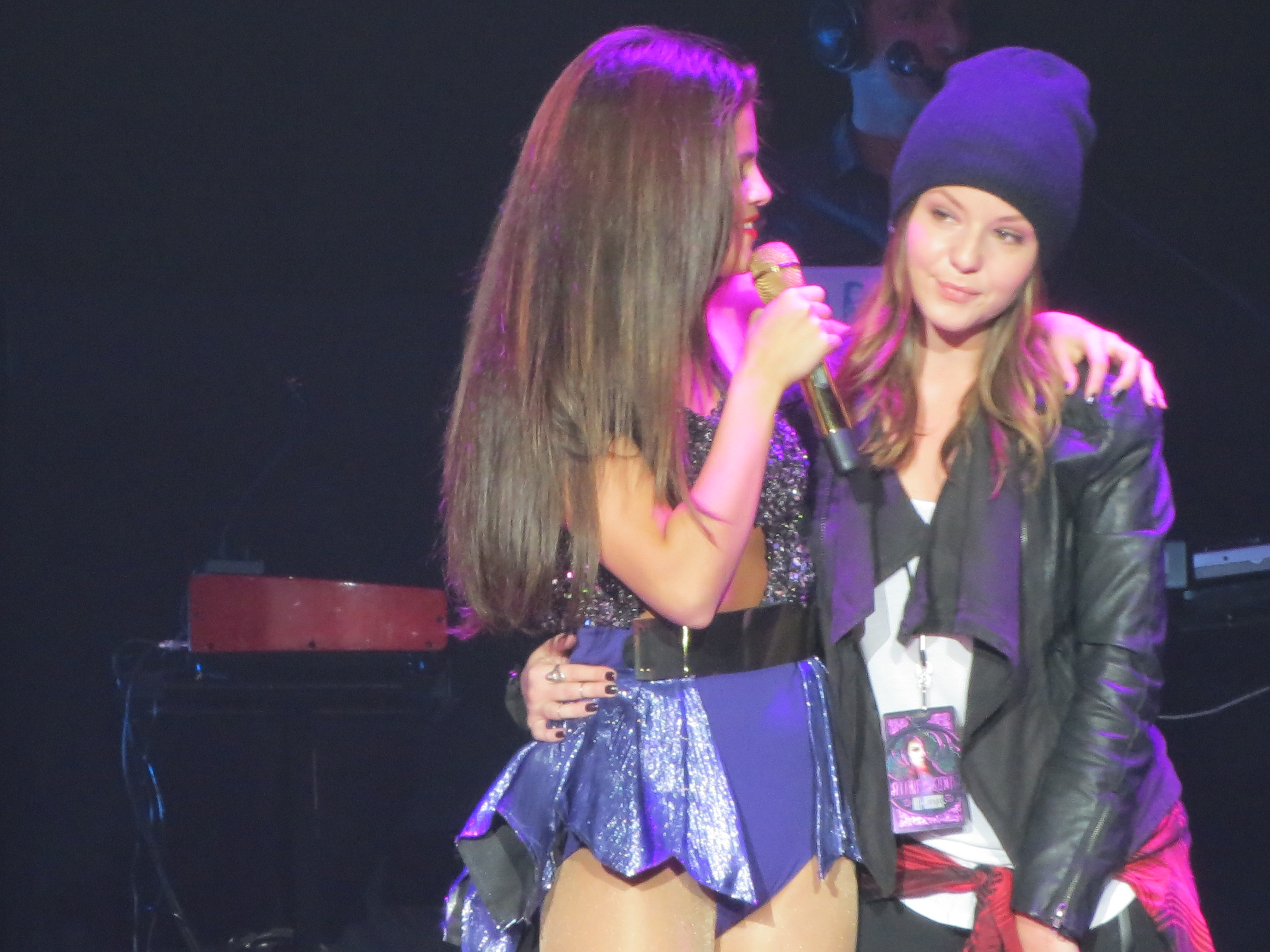 Selena Gomez and Samantha Droke, StarsDance Nov 2013 San Diego, CA